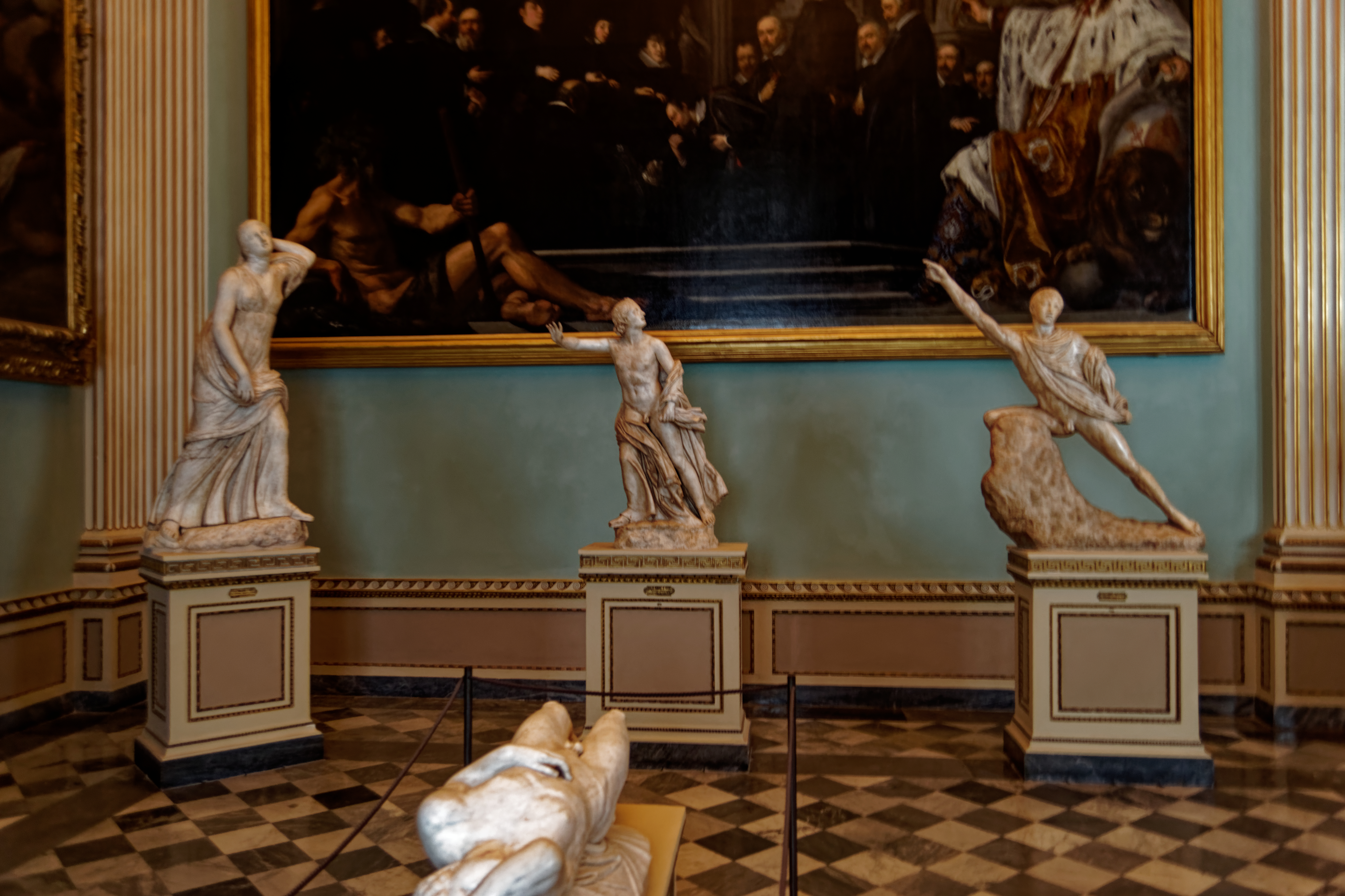 Firenze / Florence - Galleria degli Uffizi - Sala della Niobe 1782 - View East